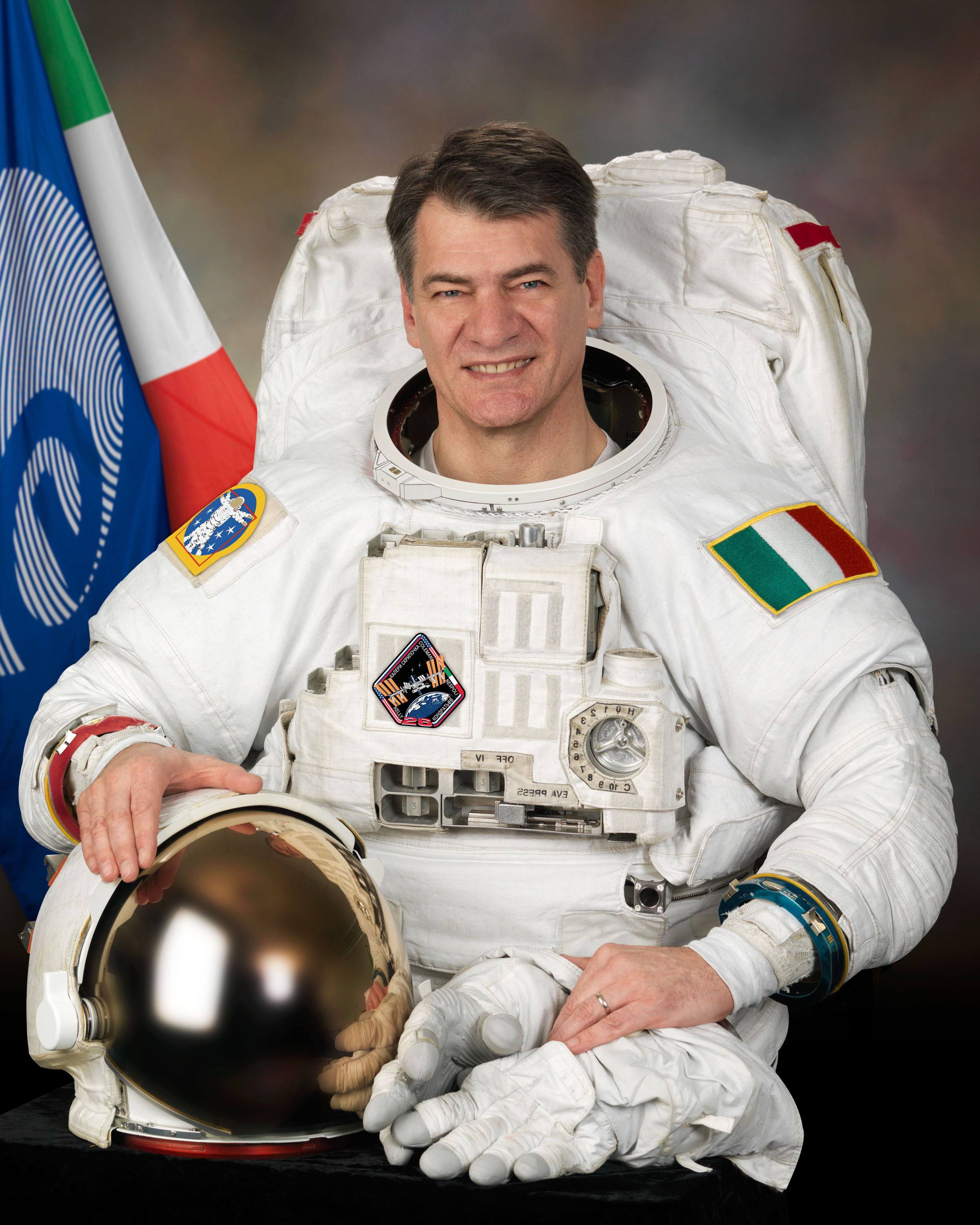 Portrait of Paolo A. Nespoli